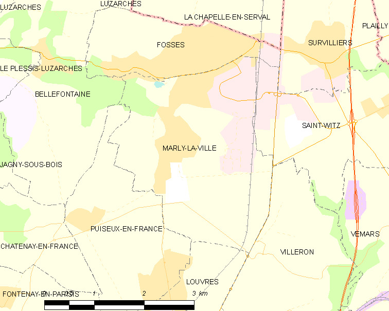 Map of French municipality Marly-la-Ville